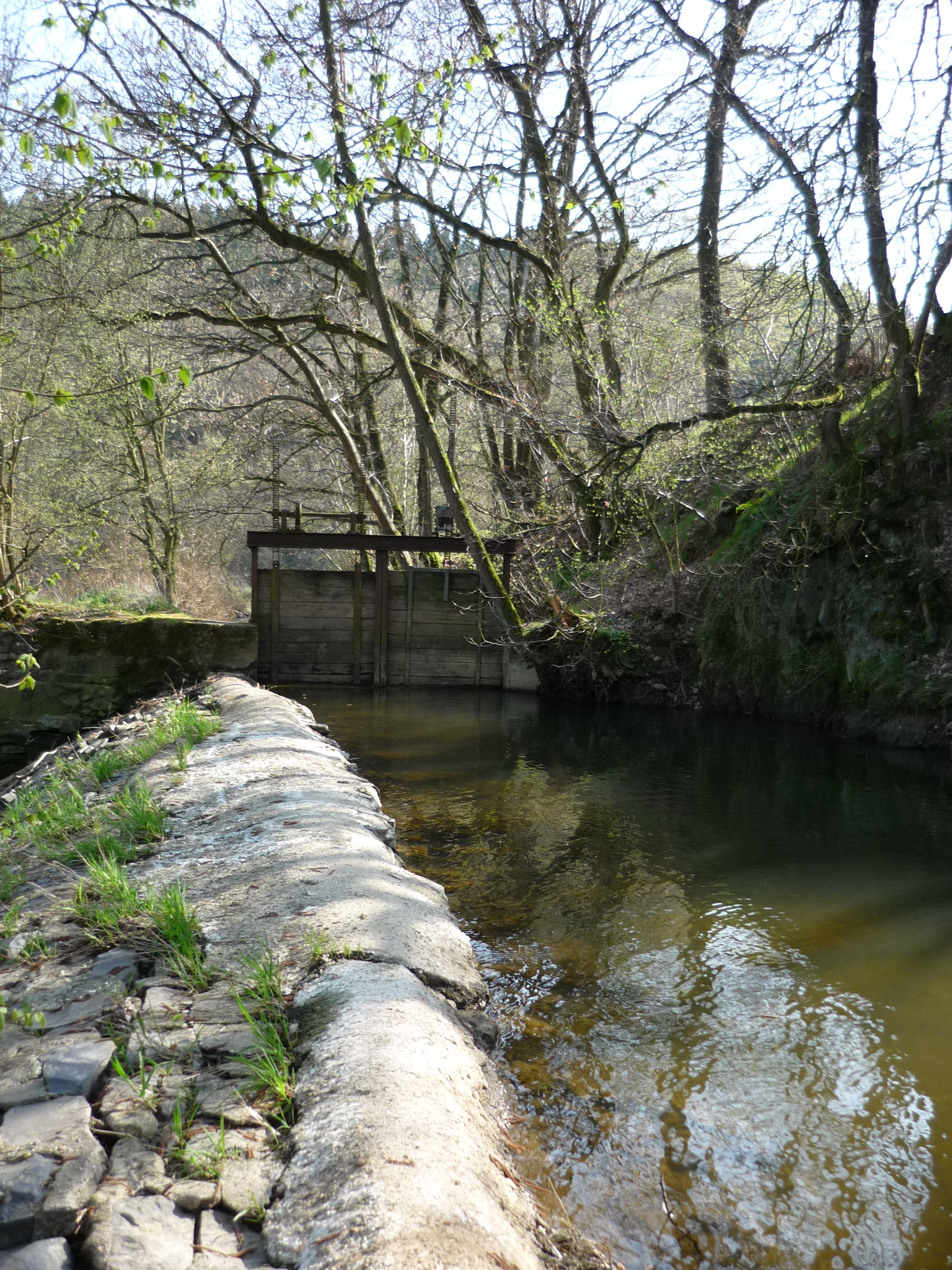 Wied (river) at Michelbach/Widderstein